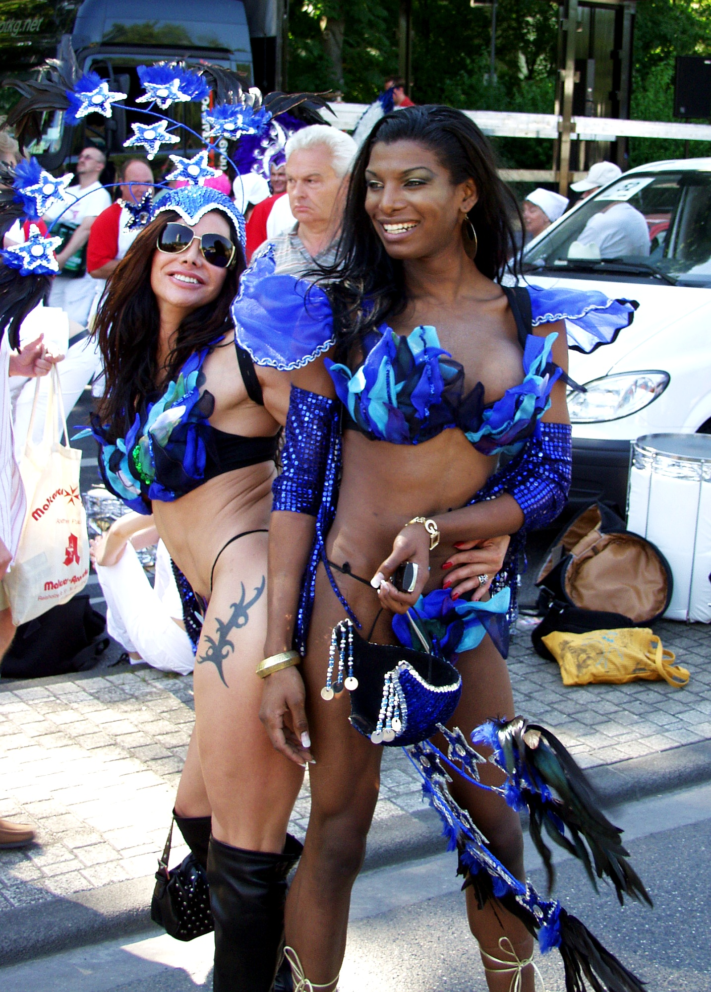 Members of the Christopher Street Day demonstration - ColognePride 2006